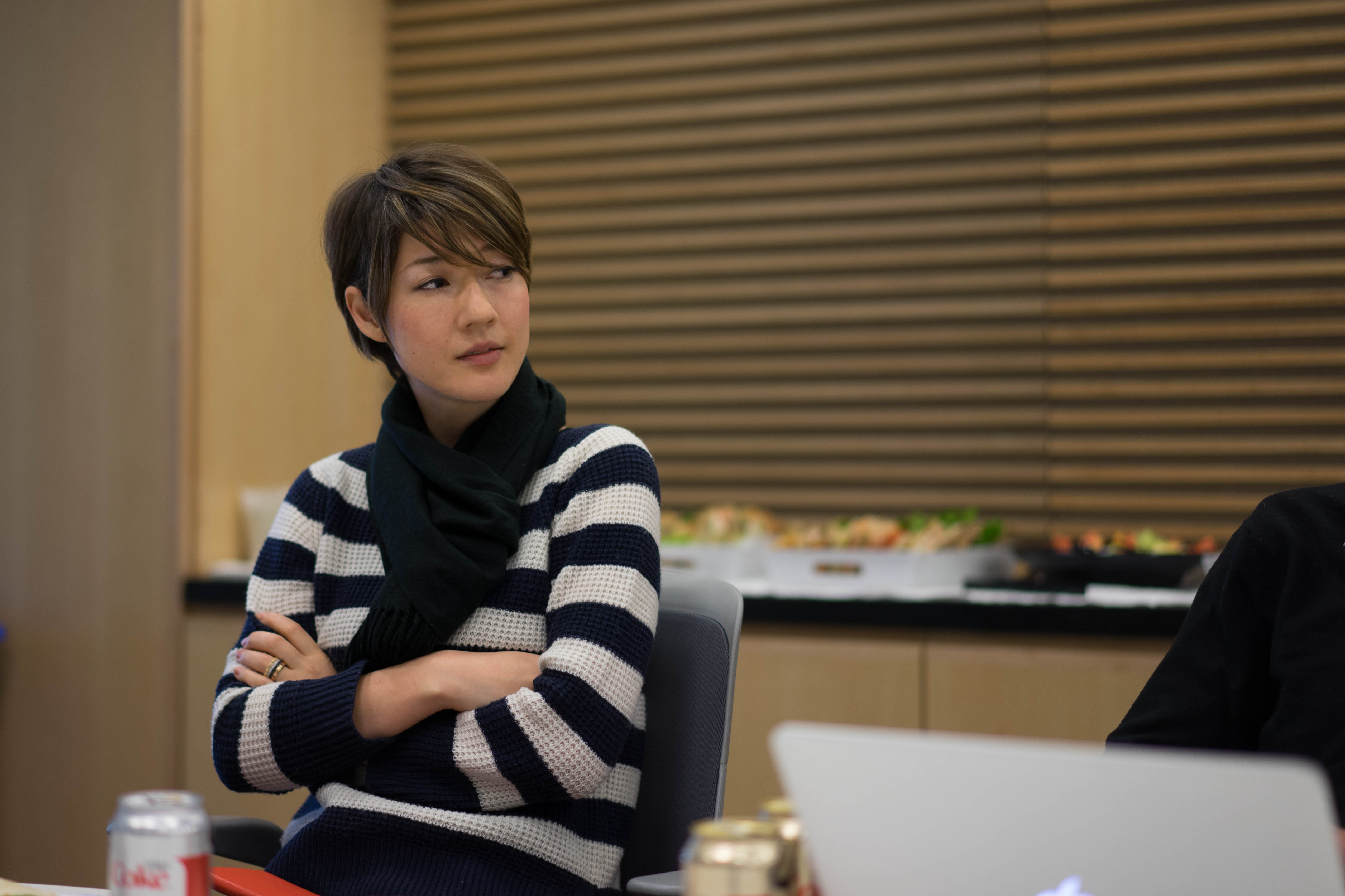 Hiromi Ozaki at a MIT Media Lab faculty meeting.